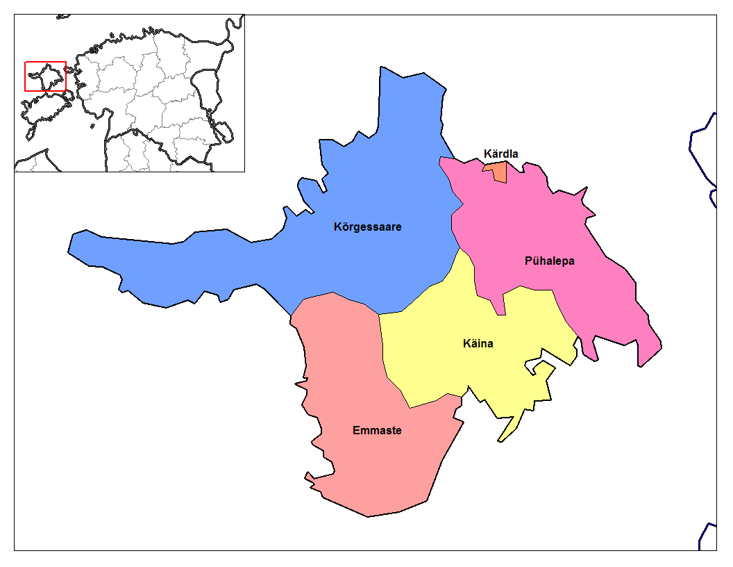 Map of the municipalities of Hiiu county in Estonia. Created by Rarelibra 17:31, 22 December 2006 (UTC) for public domain use, using MapInfo Professional v8.5 and various mapping resources.